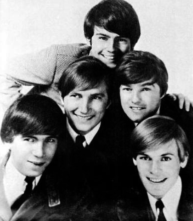 Trade ad for Five Americans's single "Sound Of Love".To better adapt it to his respective Wikipedia article, the ad was cropped and cleaned in a graphics editing program. The original can be viewed at the source below.